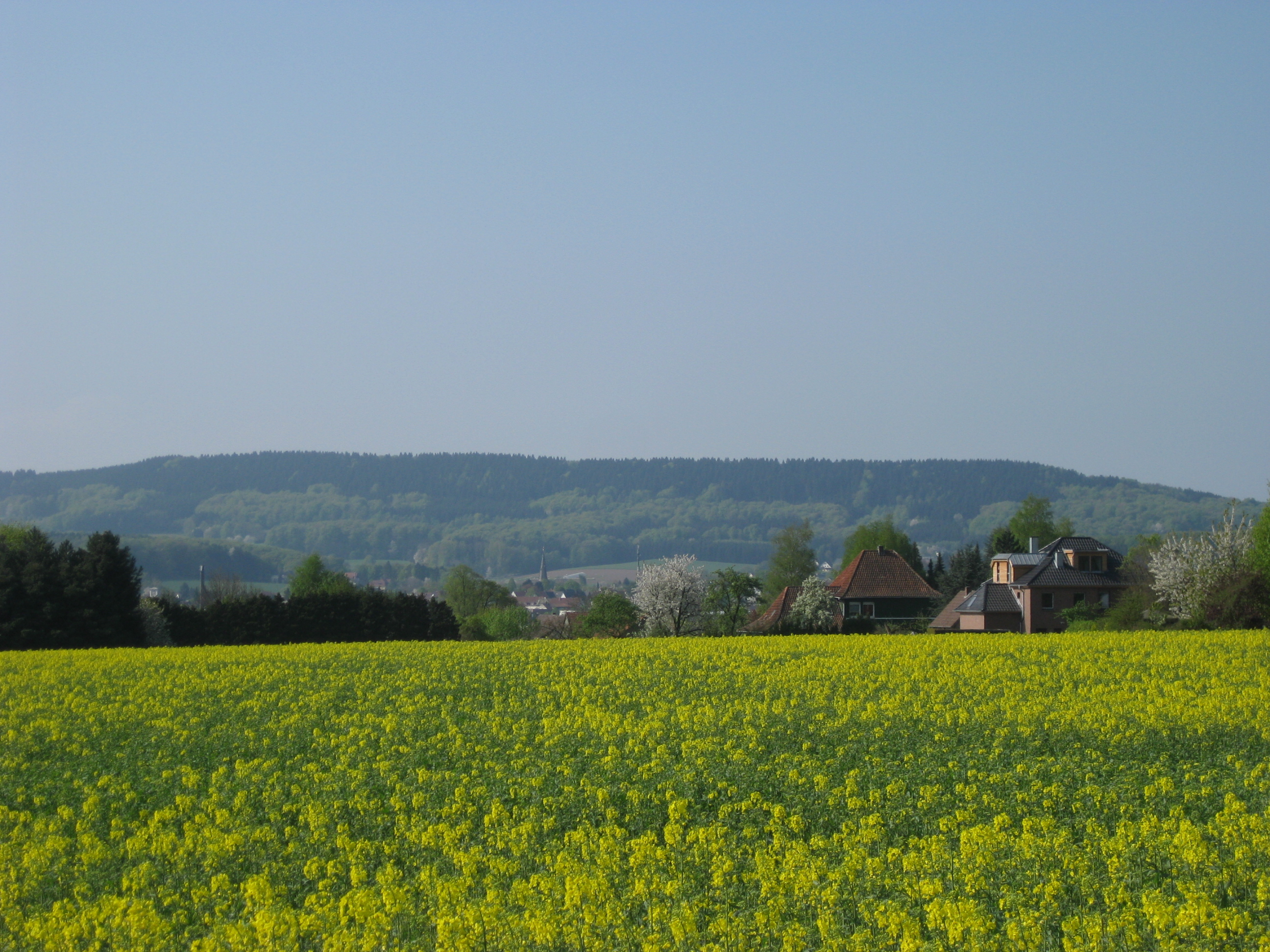 Halle (Westfalen) - Hengeberg (hill), seen from Werther